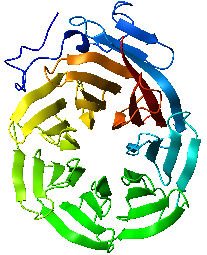 Ribbon diagram of the C-terminal WD40 domain of Tup1, a transcriptional co-repressor in yeast, which adopts a 7-bladed beta-propeller fold. Made with MOLMOL.